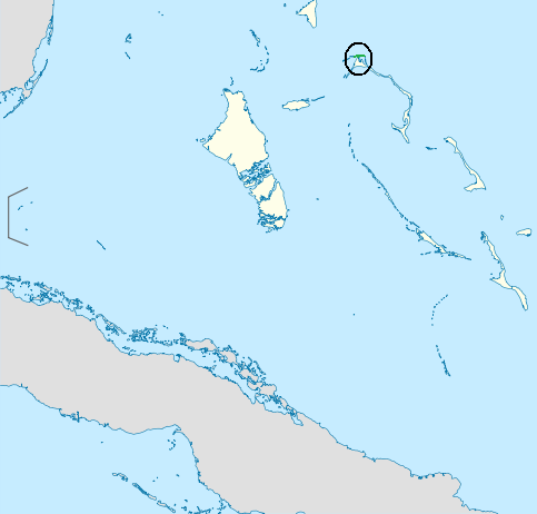 Location map of the Bahamas Equirectangular projection, N/S stretching 105 %. Geographic limits of the map: * N: 27.5° N * S: 20.7° N * W: 80.7° W * E: 70.8° W